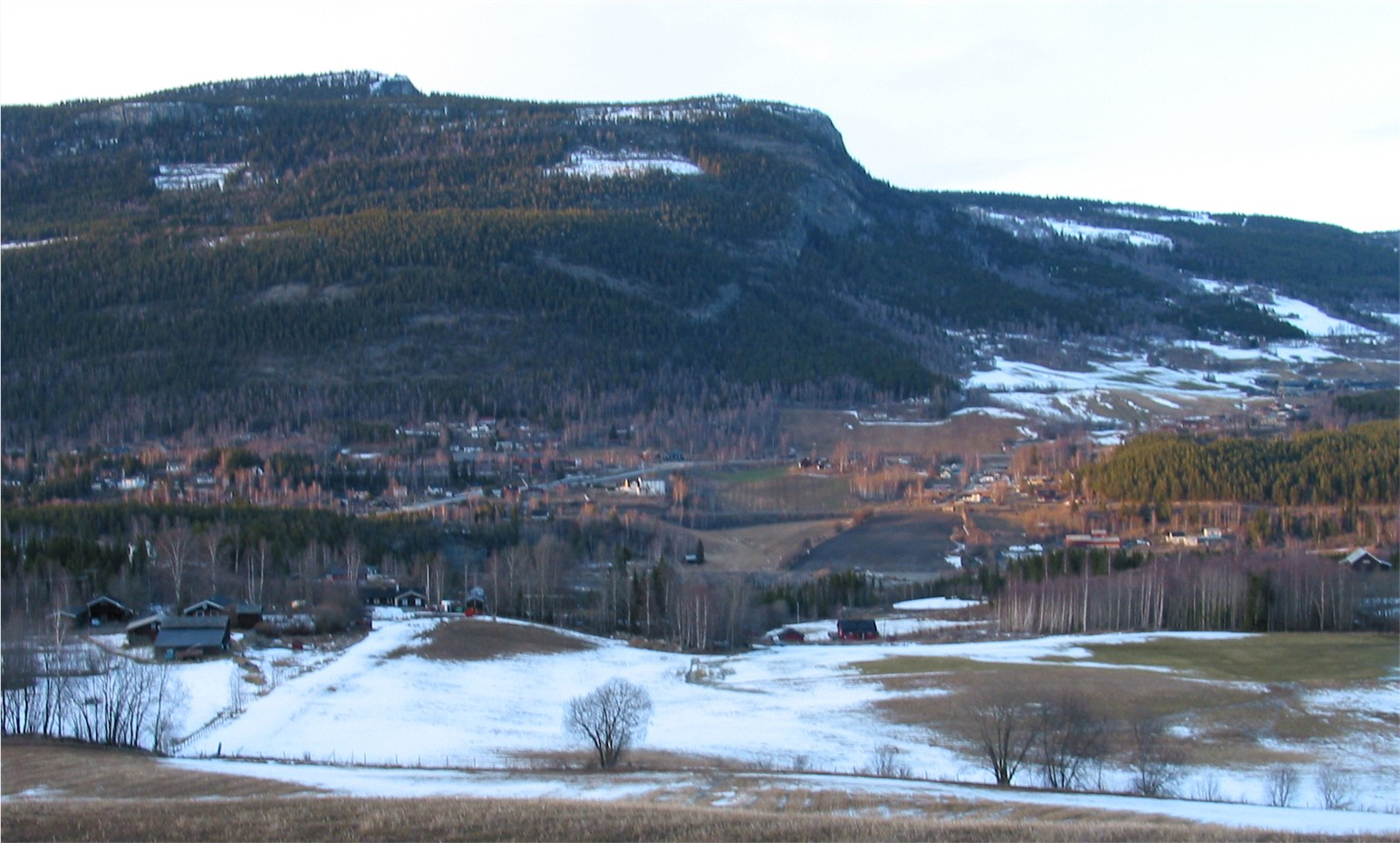 Harpefoss in Oppland. Photo taken by me on April 14, 2006. Later cropped, resized and given a slight touchup in Microsoft Picture It!.